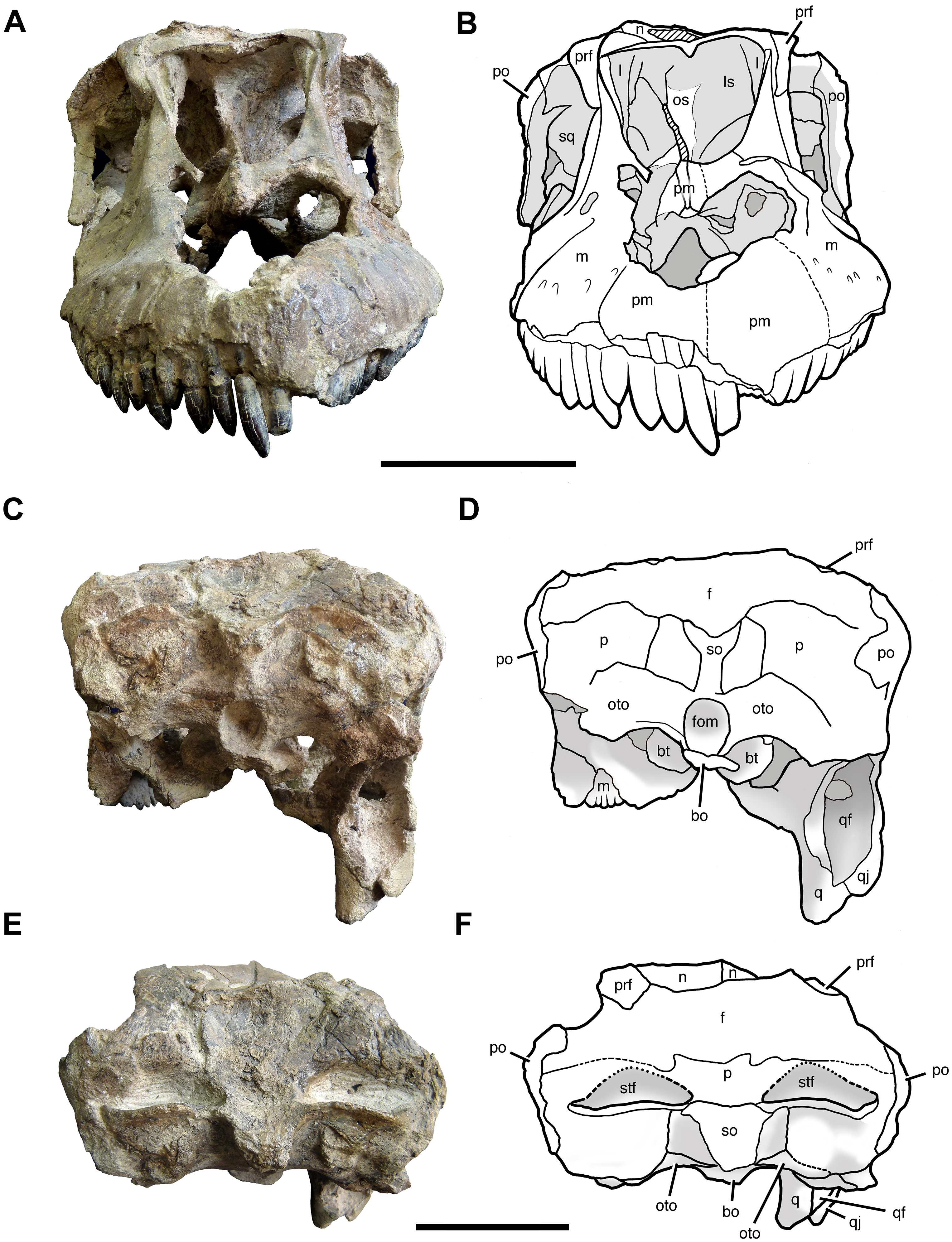 Cranium of Sarmientosaurus musacchioi gen. et sp. nov. (MDT-PV 2). Photographs (A, C, E) and interpretive drawings (B, D, F) in rostral (A, B), caudal (C, D), and caudodorsal (E, F) views. Abbreviations see text. Scale bars = 10 cm.